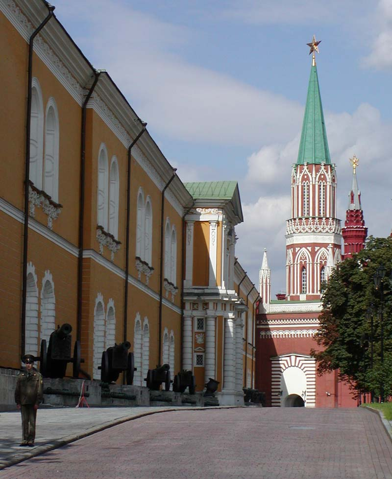 Arsenal and Nikolskaya Tower in Moscow Kremlin